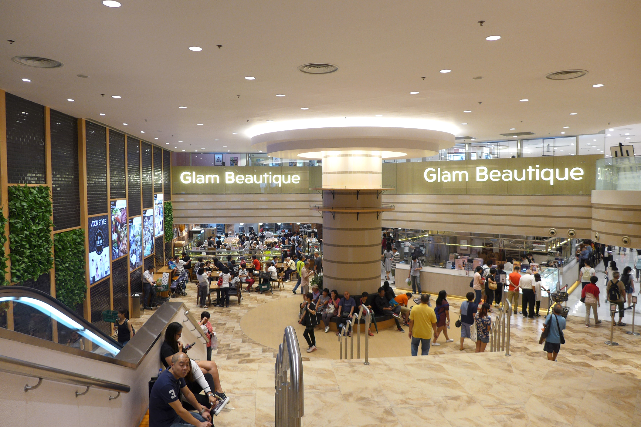 AEON Style Kornhill Entrance Void